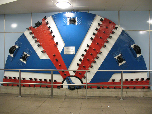 Tunnelling shield in Cutty Sark DLR station Part of the shield used for tunnelling from Island Gardens on the north bank of the Thames to Greenwich station on the south, for the Lewisham extension of the Docklands Light Railway. It is preserved in the ticket hall (below ground level) of Cutty Sark station, along with a plaque recording the opening of the extension on 22 November 1999.